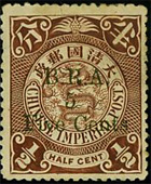 Chinese postage stamp overprinted by the British Railway Administration (B.R.A.). China Expeditionary Force FPO No. 20 (Peking - Tangku TPO). 1901, BRA, 5c on 1/2 c brown with black surcharge. Issued for the railway travelleing post office.